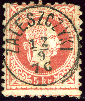 Austria KK 5 kr stamp issued in 1867, cancelled at ZALESZCZYKI (Galicia, Ukraine)